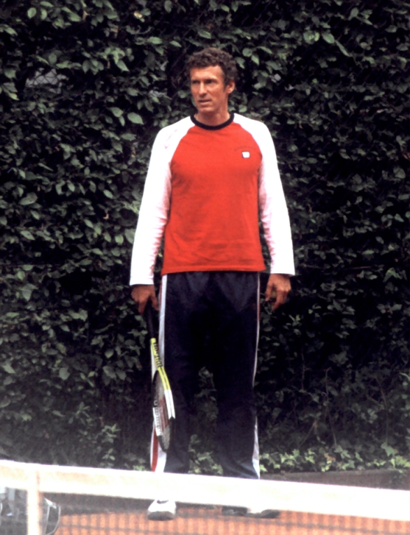 The German tennis player and coach Patrik Kühnen at the public training for the World Team Cup in Düsseldorf, Germany, 2005.